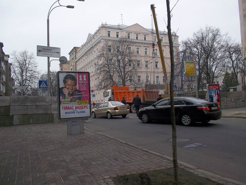 Lypska Street corner, Kiev